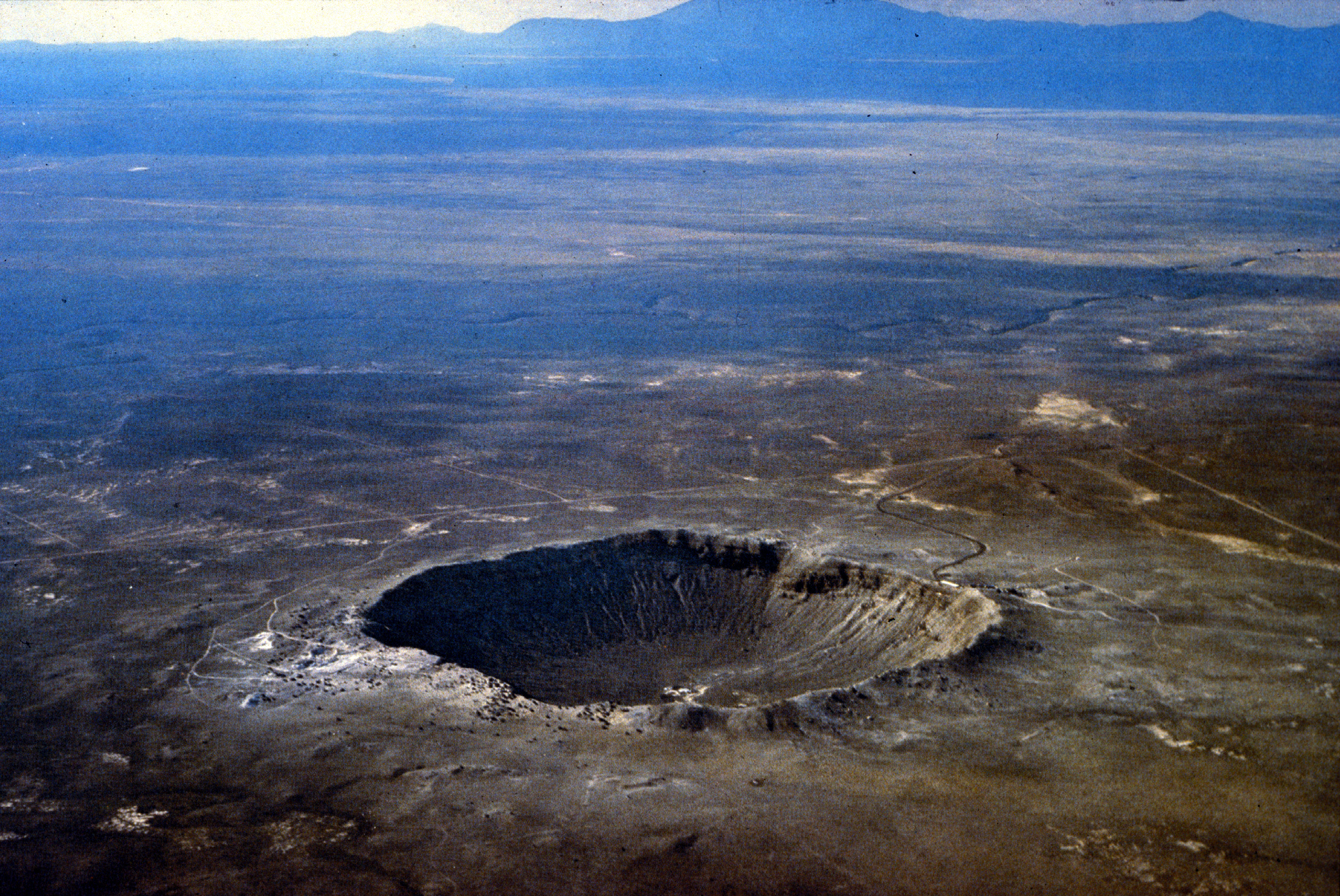 The origin of this classic, simple meteorite impact crater was long the subject of controversy. The discovery of fragments of the Canyon Diablo meteorite, including fragments within the breccia deposits that partially fill the structure, and the presence of a range of shock-metamorphic features in the target sandstone, confirmed its impact origin. Target rocks include Paleozoic carbonates and sandstones; these rocks have been overturned just outside the rim during ejection. The hummocky deposits just beyond the rim are remnants of the ejecta blanket. This aerial view shows the dramatic expression of the crater in the arid landscape.